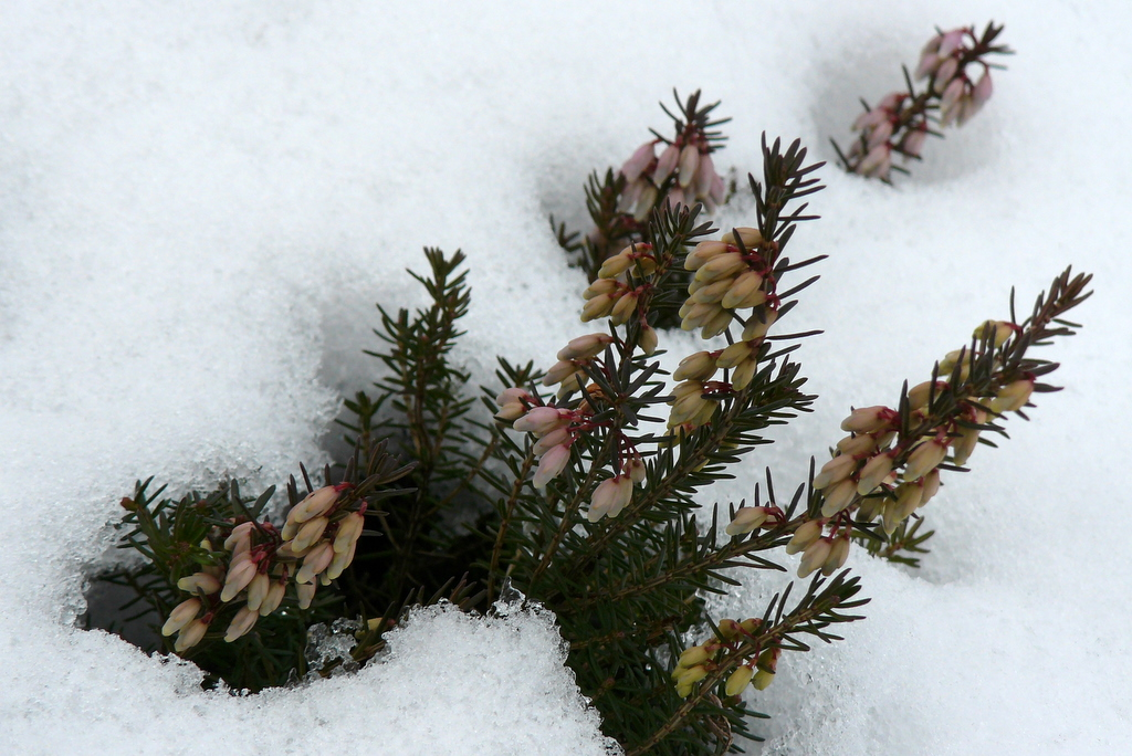 Erica x darleyensis, buds